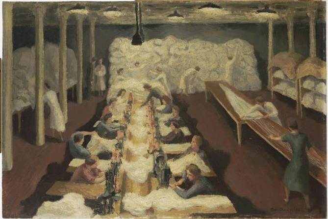 A view of the factoryfloor of a parachute factory, showing a row of women working at sewing machines with bales of silk in the background & other activities depicted